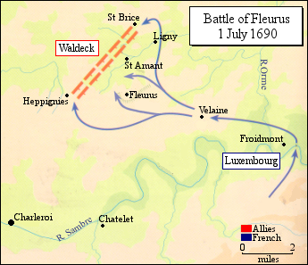 This image is selfmade based on the original in John A Lynn's The Wars of Louis XIV: 1667–1714